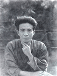 Jirō Osaragi (4 October 1897–30 April 1973)